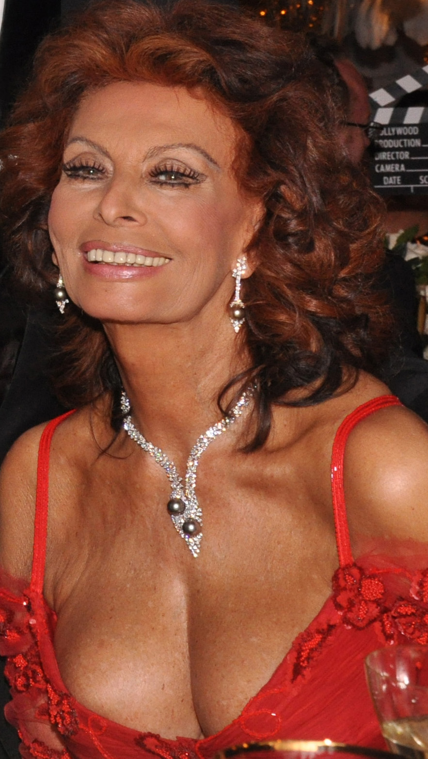 Sophia Loren at an event in London in 2009.